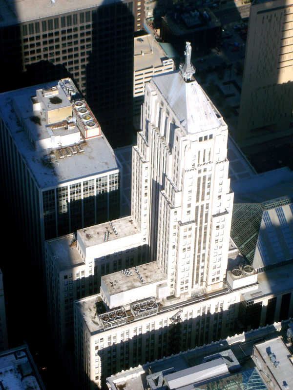 Chicago Board of Trade from the Sears Tower.